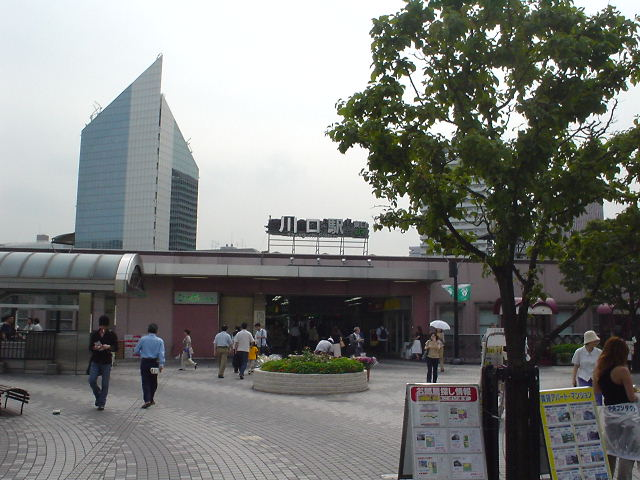 Kawaguchi Station